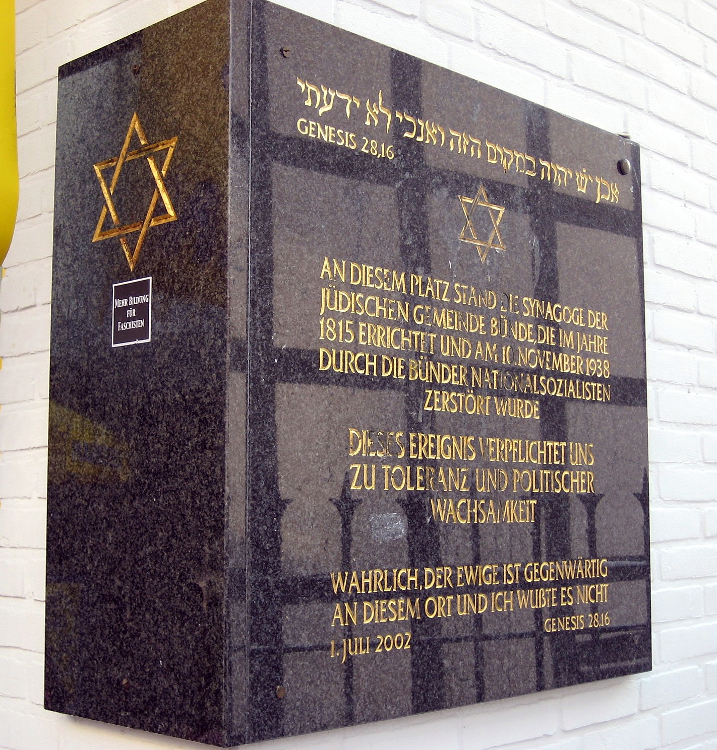 Plaque reminding of the former synagogue in Bünde, District of Herford, North Rhine-Westphalia, Germany.